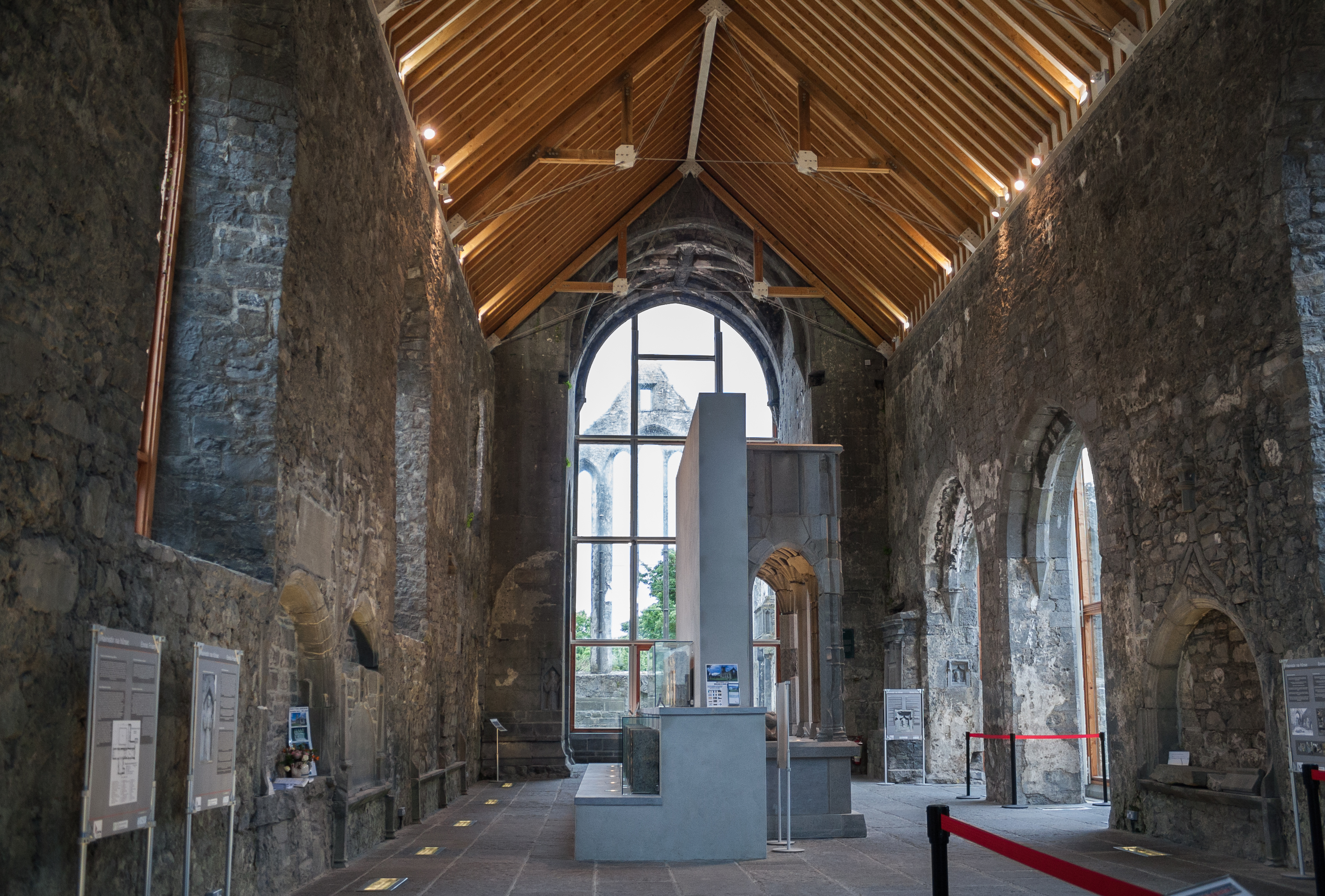 Nave of the friary, looking east.